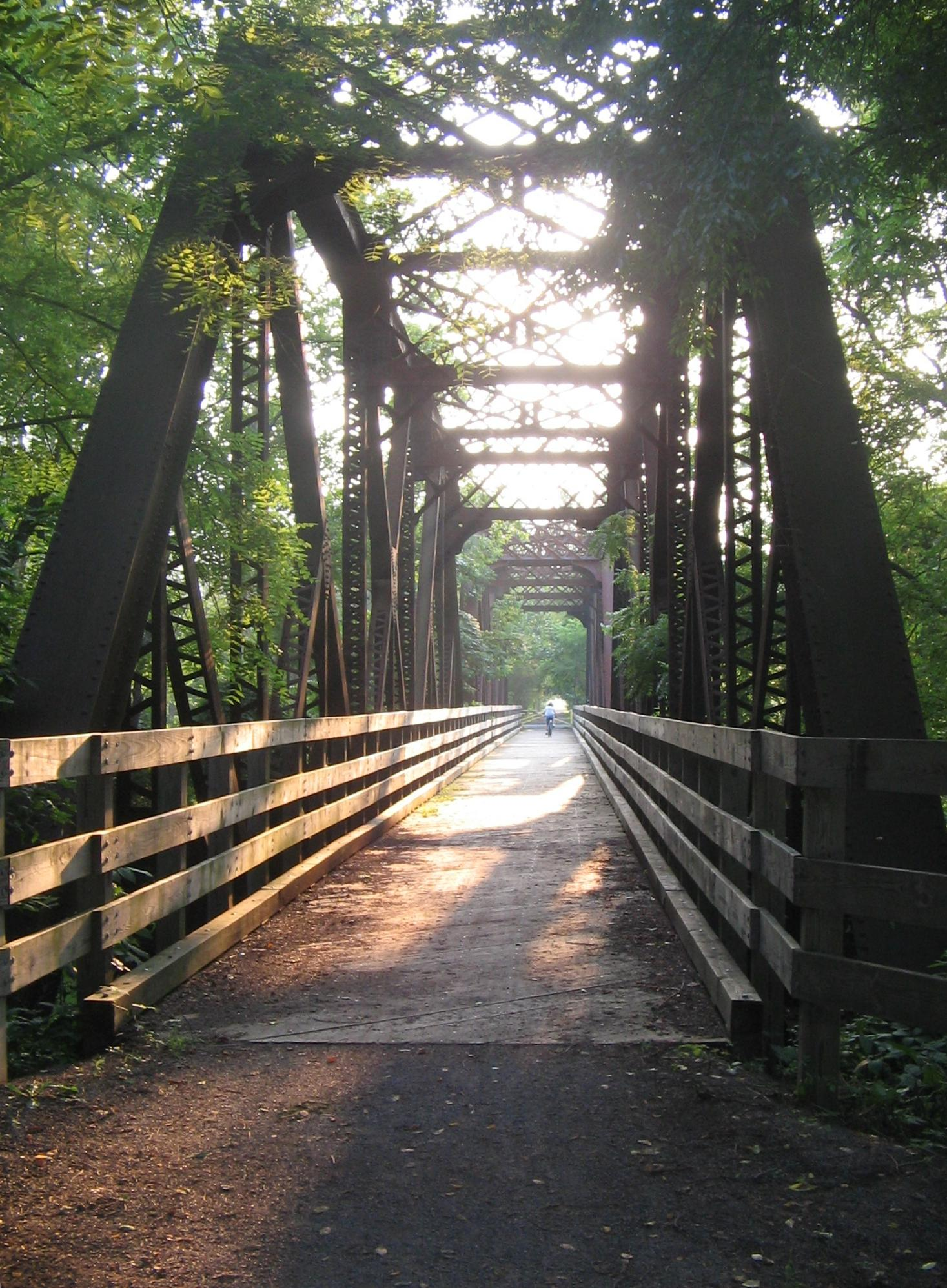 Pine Creek Rail Trail bridge over Little Pine Creek in the village of Waterville, Cummings Township, Lycoming County, Pennsylvania, United States.